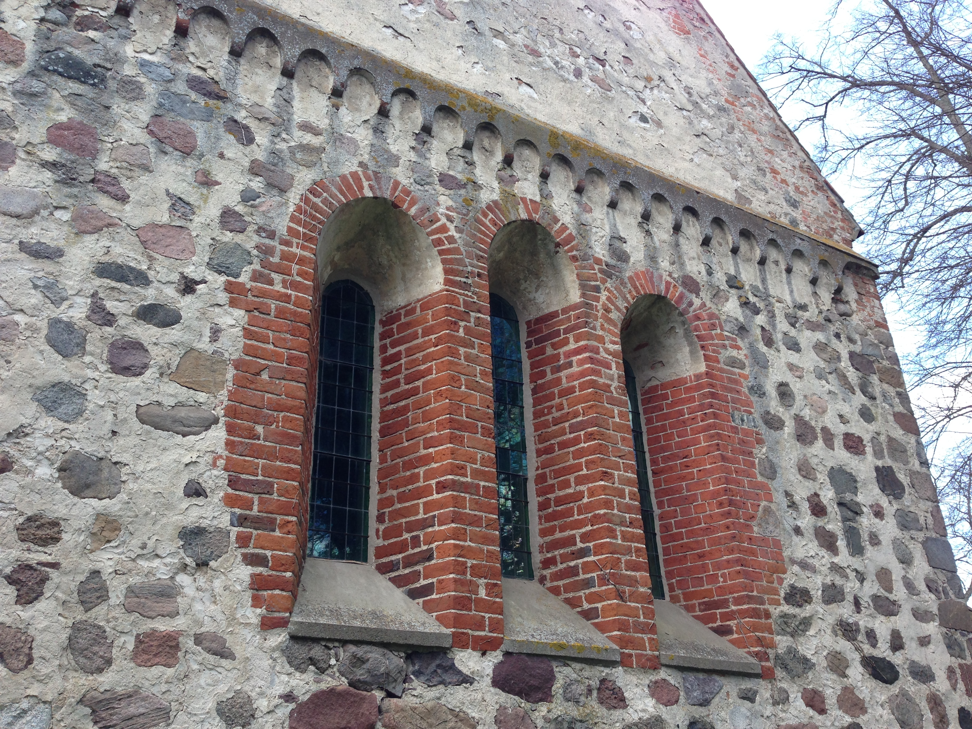 Church in Lüdershagen (Hoppenrade), district Rostock, Mecklenburg-Vorpommern, Germany